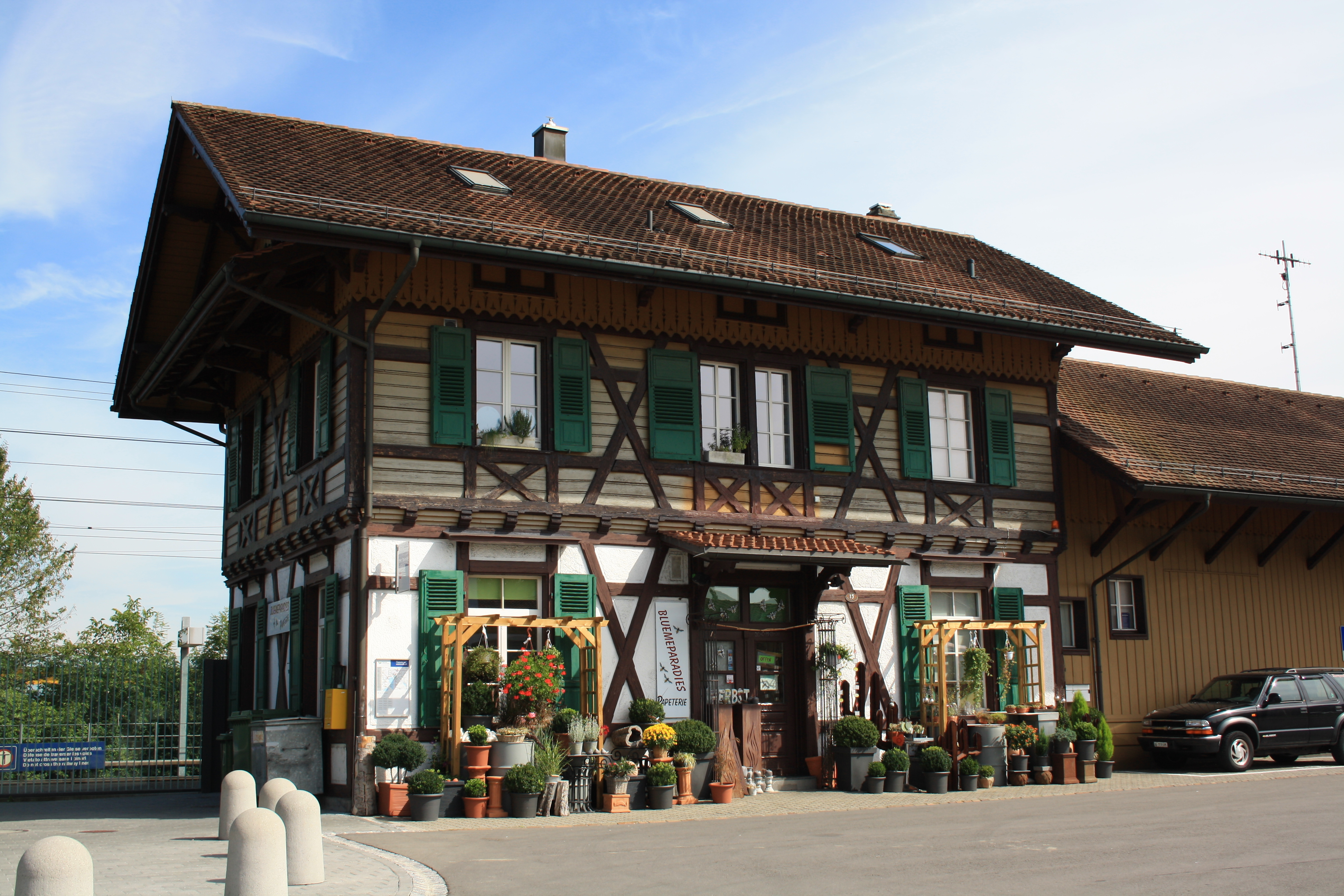 Railwaystation at Sins AG, Switzerland